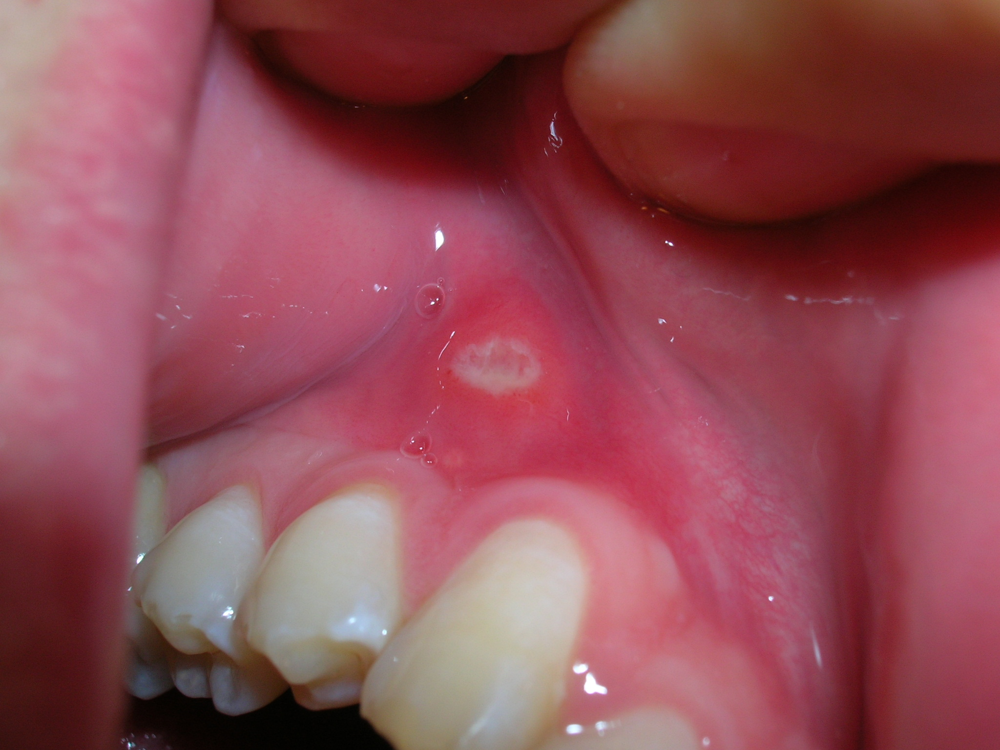 A big canker